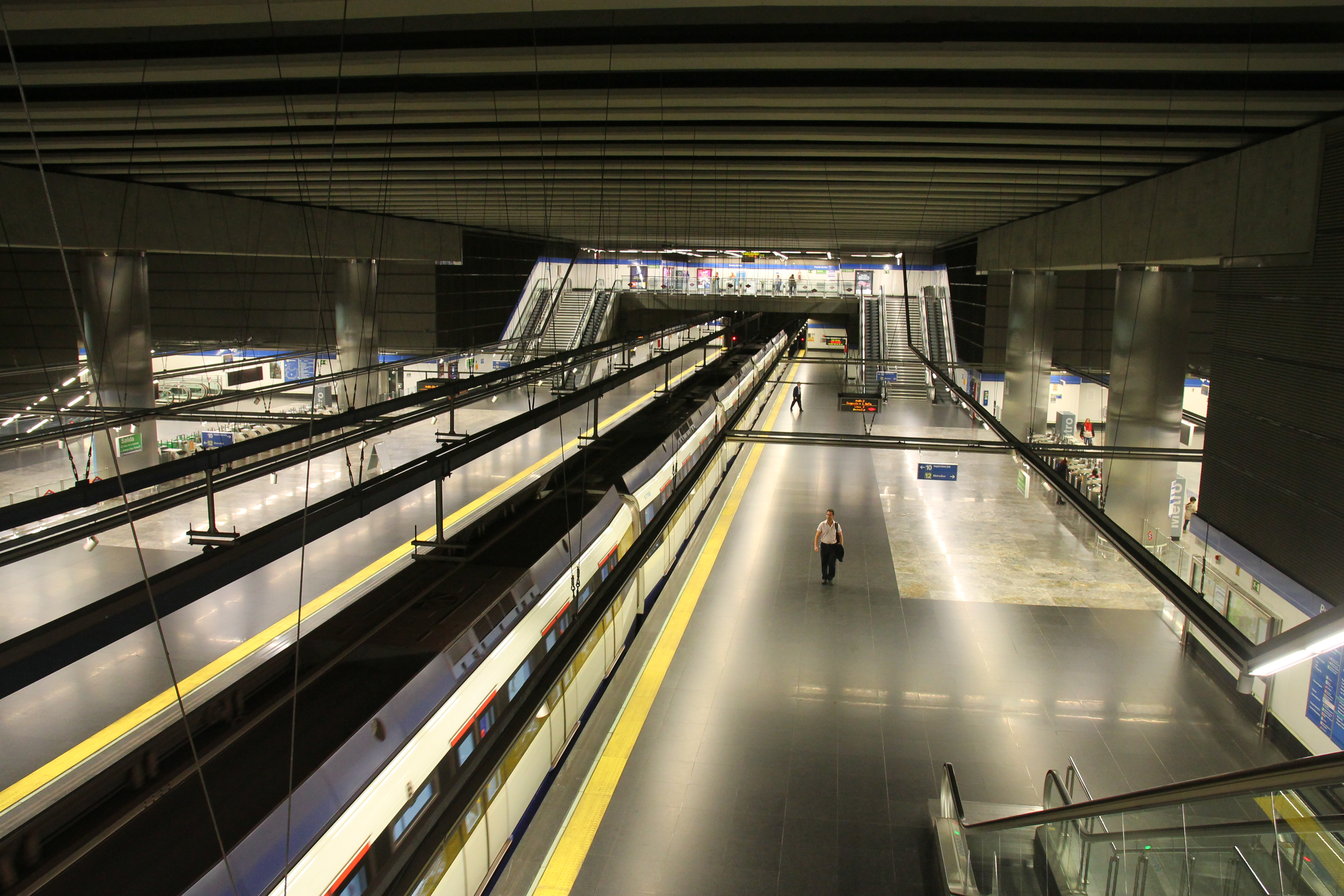 Puerta del Sur metro station, line 10, Madrid